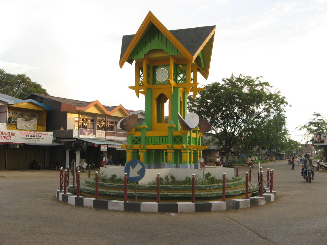 Tugu Ale-ale (ale-ale is a kind of shell, tugu=monument) lacated in Ketapang city, West Kalimantan.